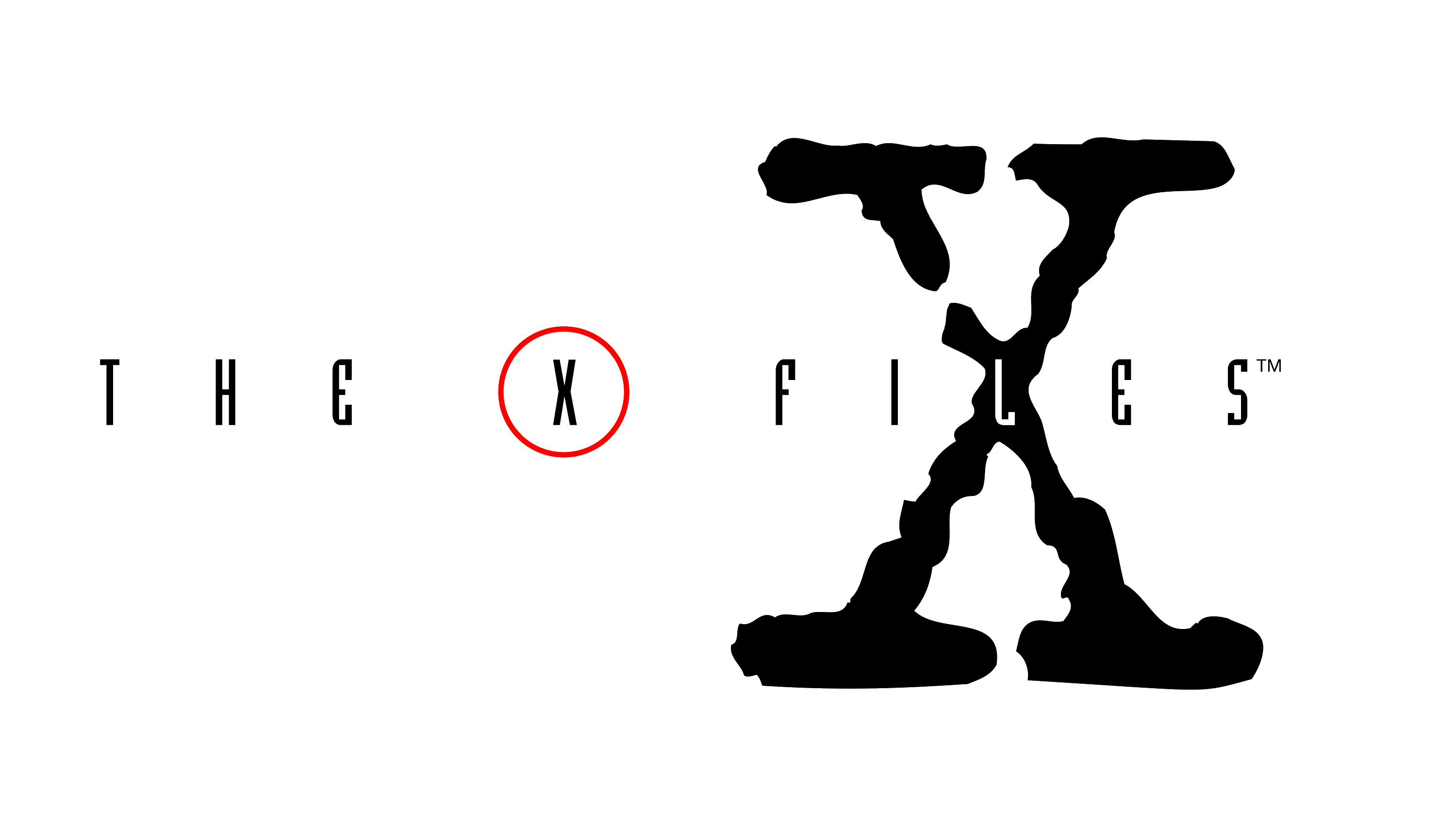 Title logo for television series The X-Files.